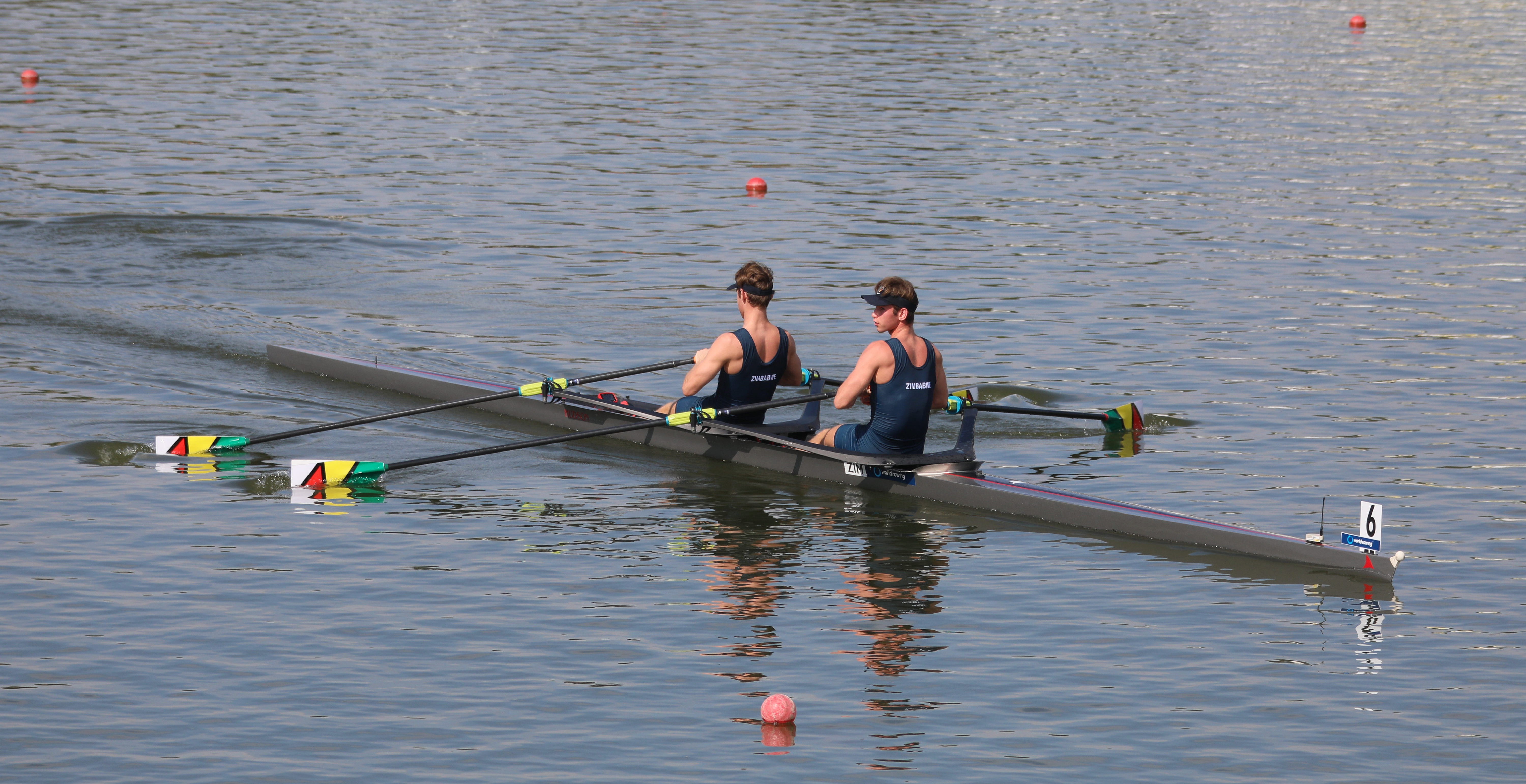 Junior Men's Double Sculls competition (semifinal CD) on 11 August at the 2018 World Rowing Junior Championships in Račice u Štětí. PLUNKET, PATRICK: Position: Stroke. PLUNKET, RORY: Position: Bow.